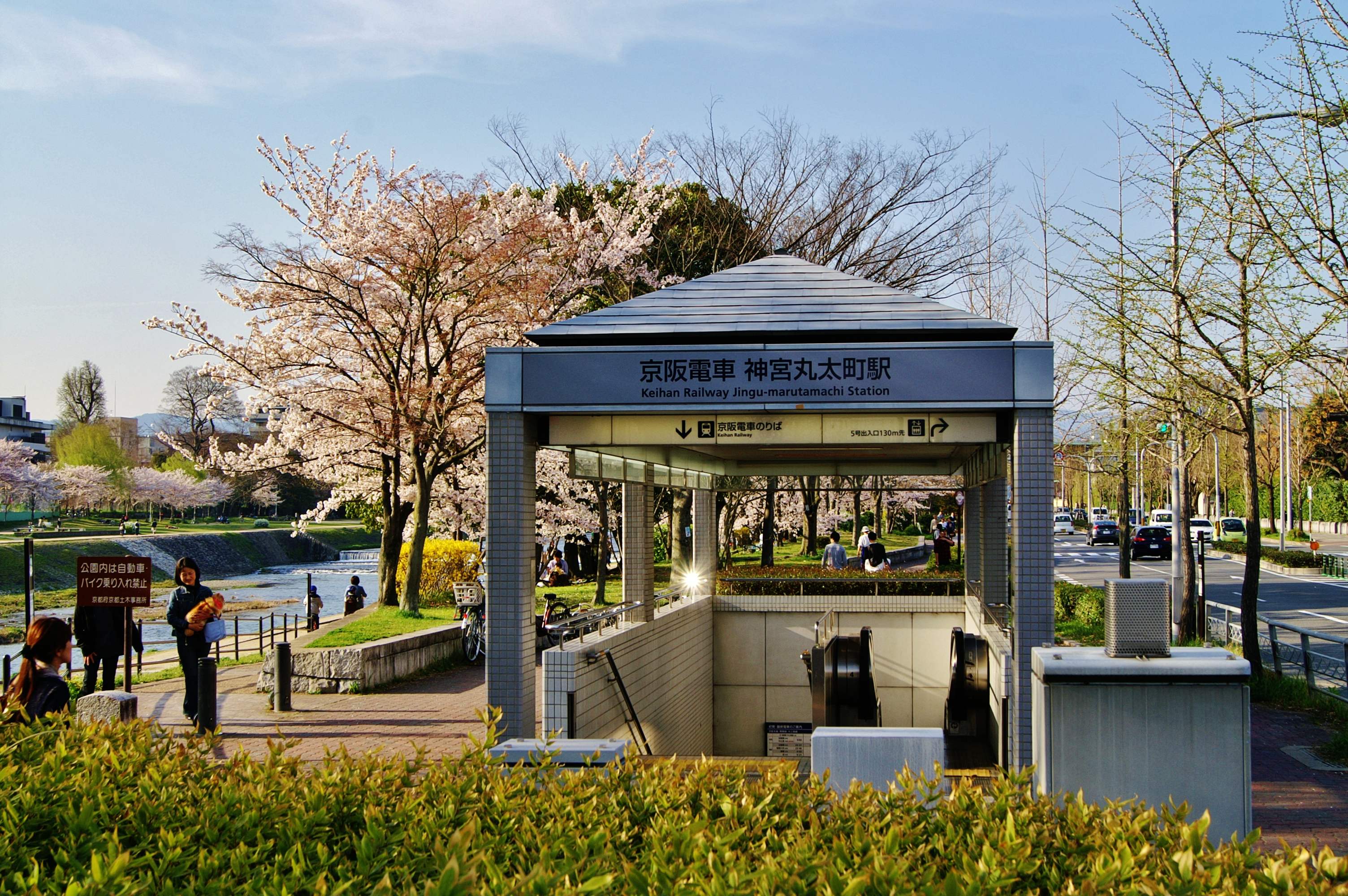 Jingu-Marutamachi Keihan station in Kyoto during spring